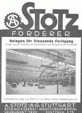 Advertisement of Albert Stotz Foundry in the Swiss journal 'Schweizer Bauzeitung' 1930